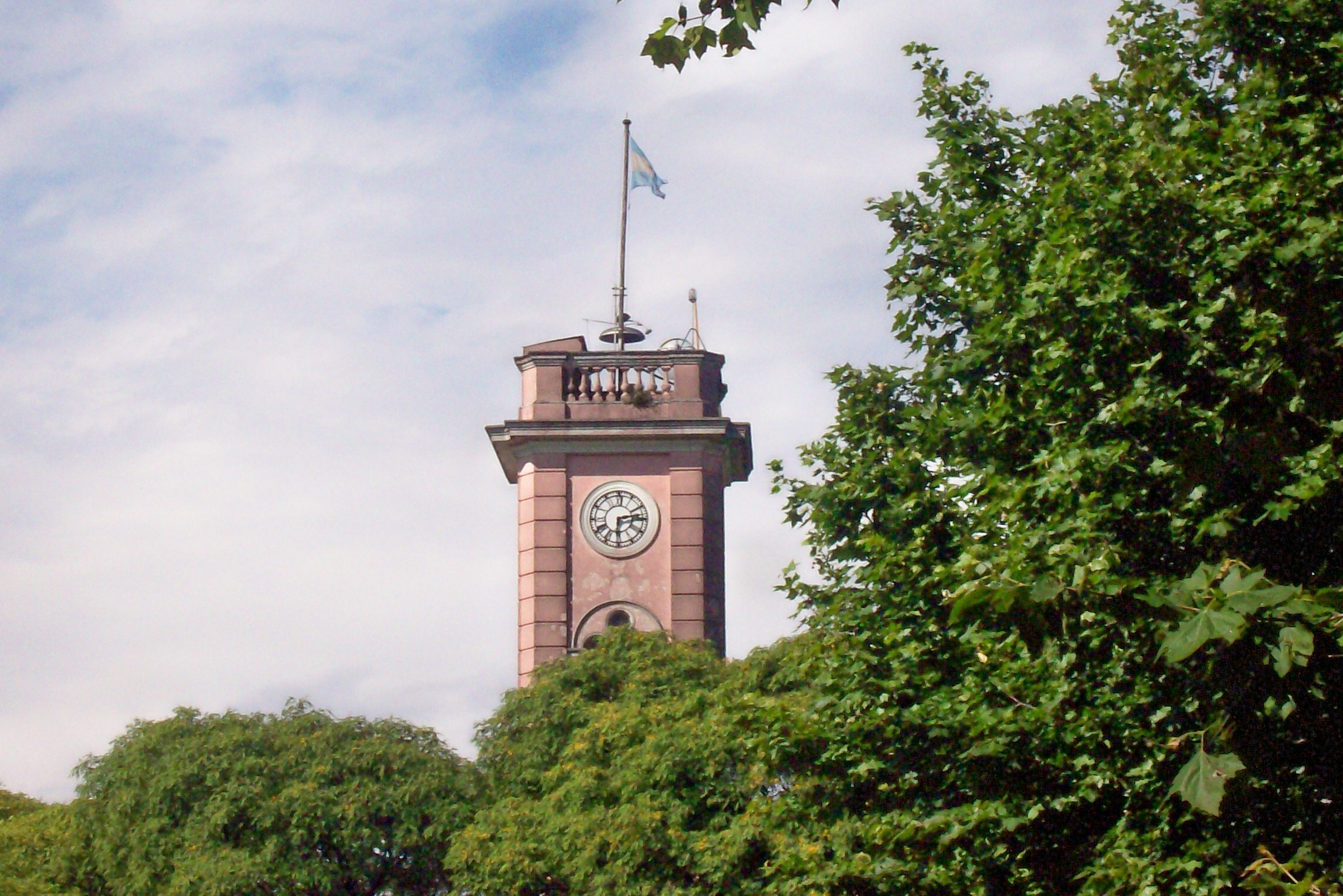 Tower of the Ex Mercado Nacional de Hacienda in Mataderos, Buenos Aires city.